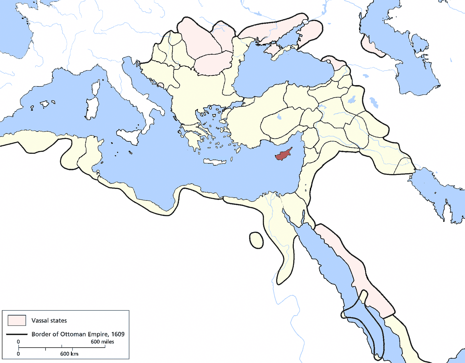 Cyprus Eyalet, Ottoman Empire (1609). Source: Encyclopedia of the Ottoman Empire at Google Books By Gábor Ágoston, Bruce Alan Masters